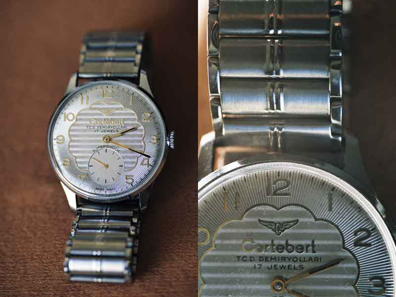 Official Turkish Railroad wristwatch by Cortébert in 1950s.